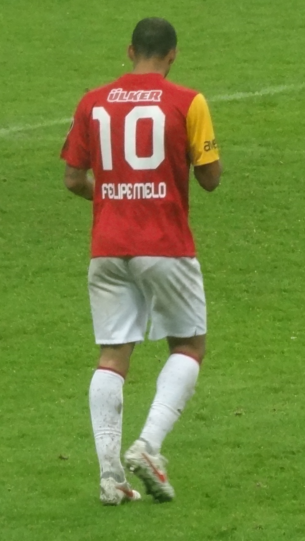 Felipe Melo wearing number 10 for GS